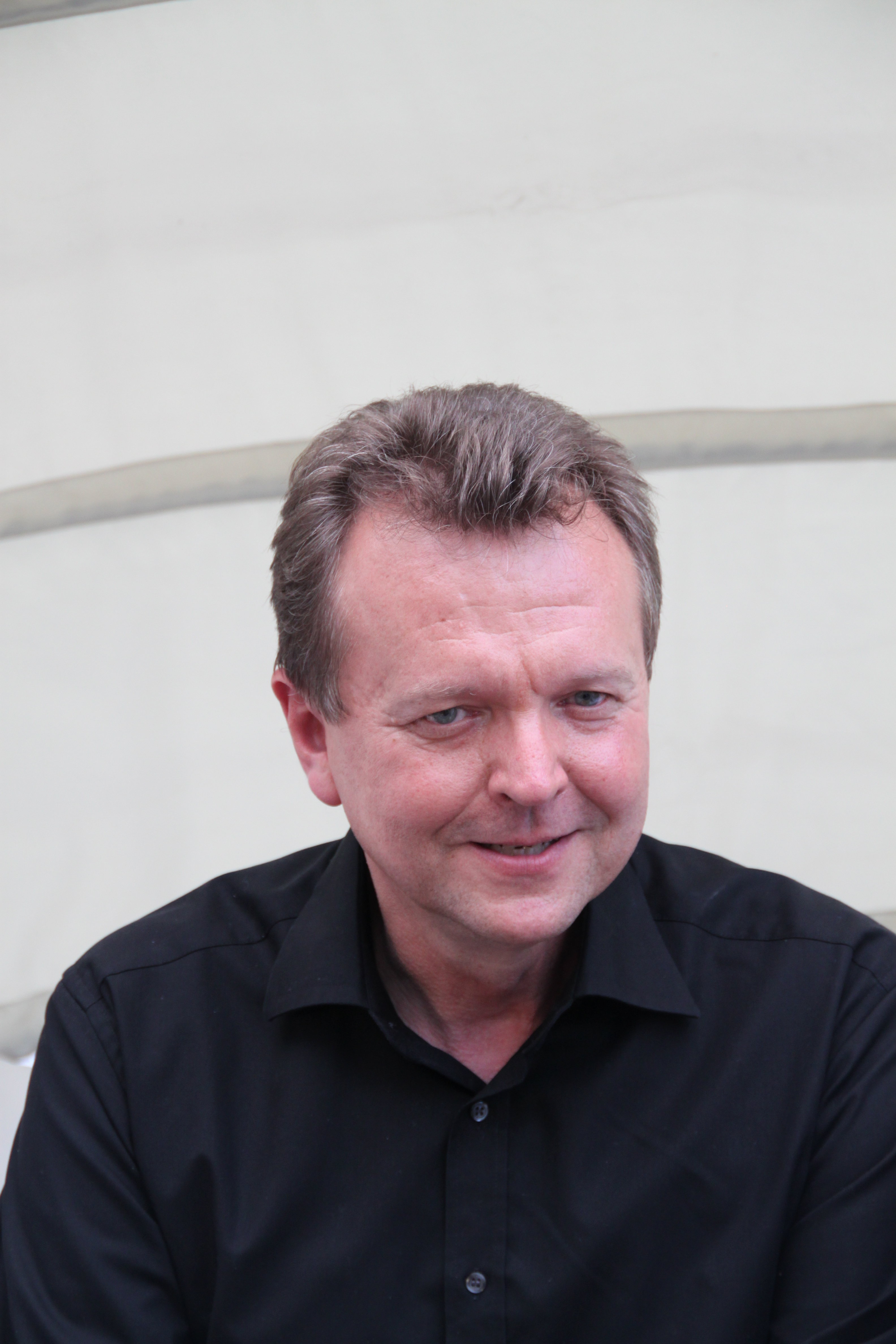 Martin Dörmann during Netzpolitischer Dialog at United Prototype